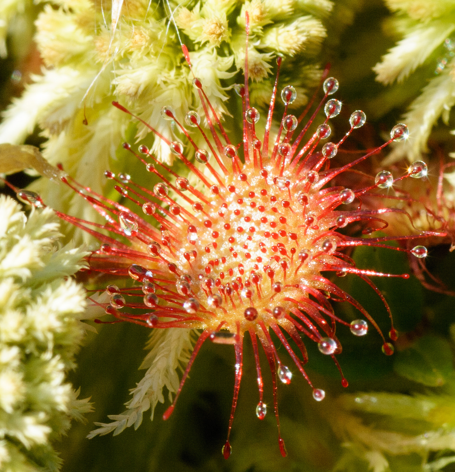 The round-leaved sundew Drosera rotundifolia, Torfy Lake, Aleksandrów, Warsaw, Poland. This is a photography of protected area with CRFOP ID PL.ZIPOP.1393.PK.72